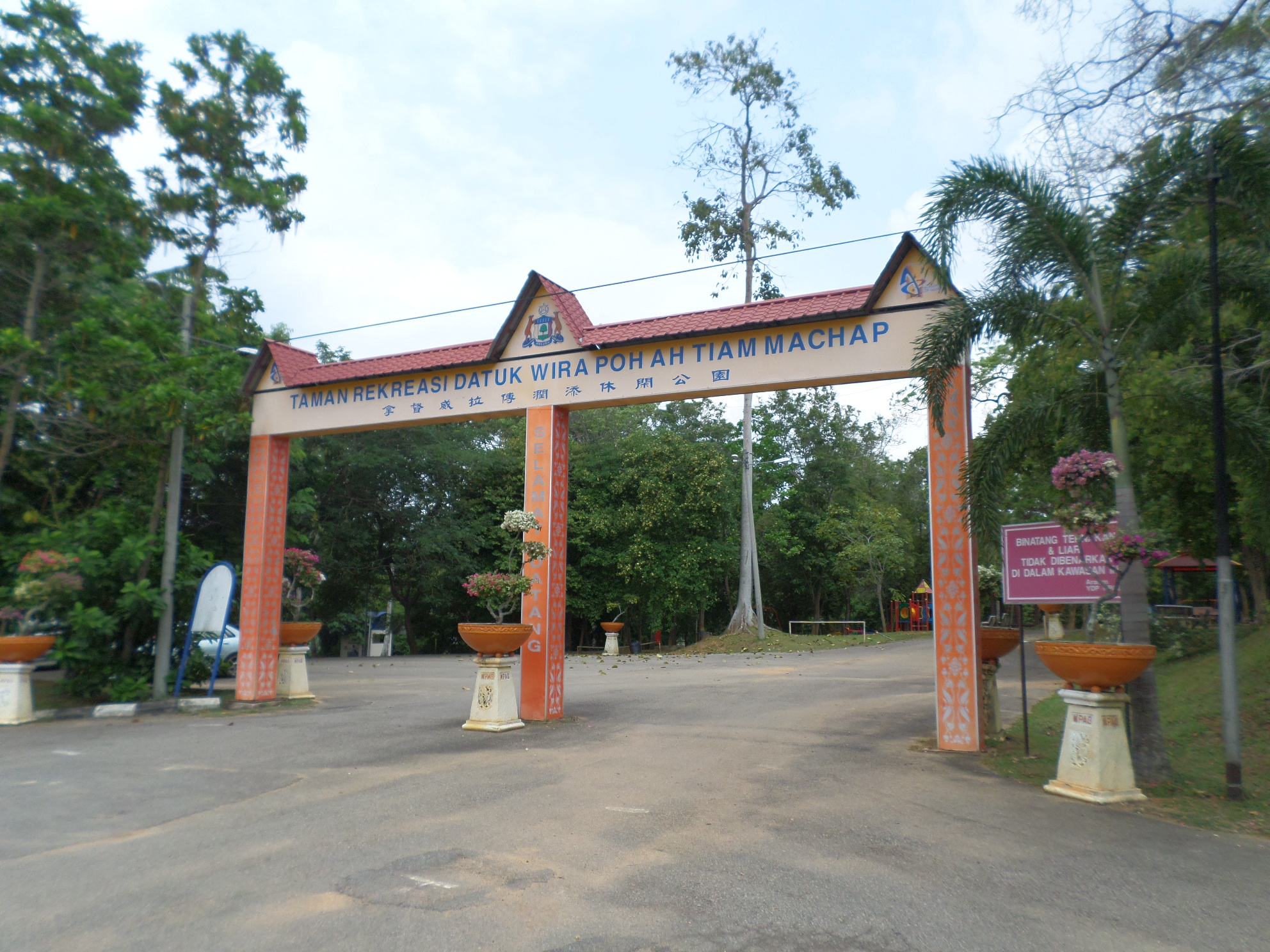 Datuk Wira Poh Ah Tiam Machap Recreational Park, Machap Baru, Alor Gajah, Melaka, MalaysiaBahasa Melayu: Taman Rekreasi Datuk Wira Poh Ah Tiam Machap, Machap Baru, Alor Gajah, Melaka, Malaysia